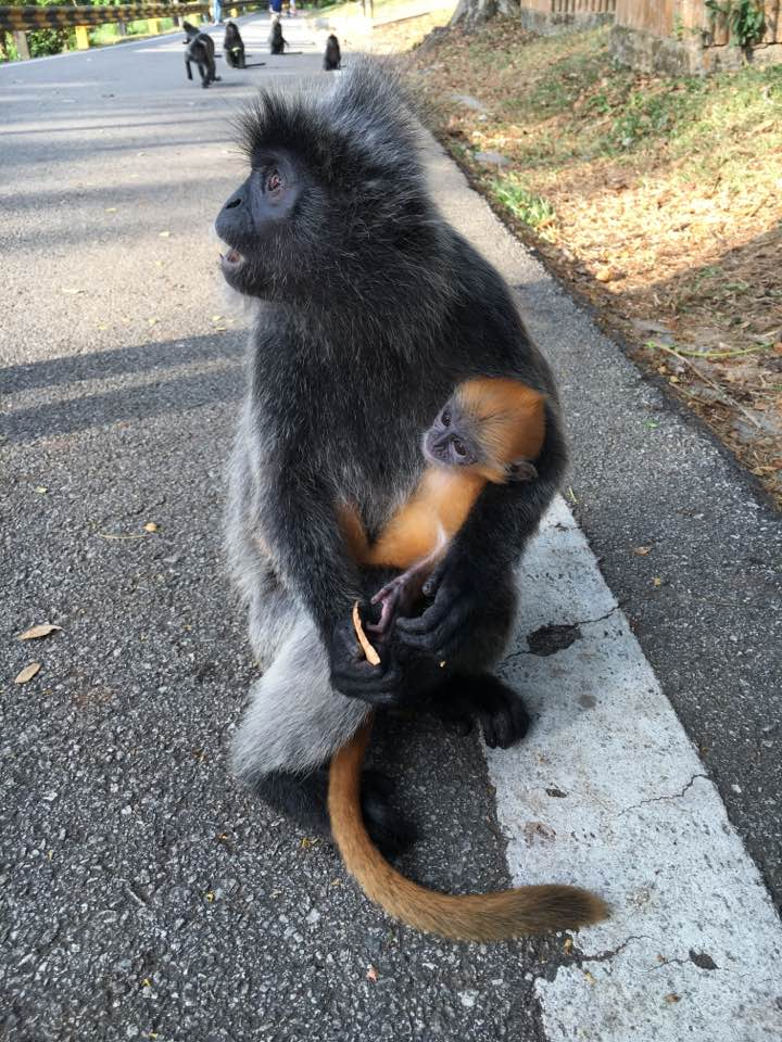 Silvery leaf monkey mother (or allomother) with a baby (3 months old or less) at Bukit Melawati in Kuala Selangor, Malaysia